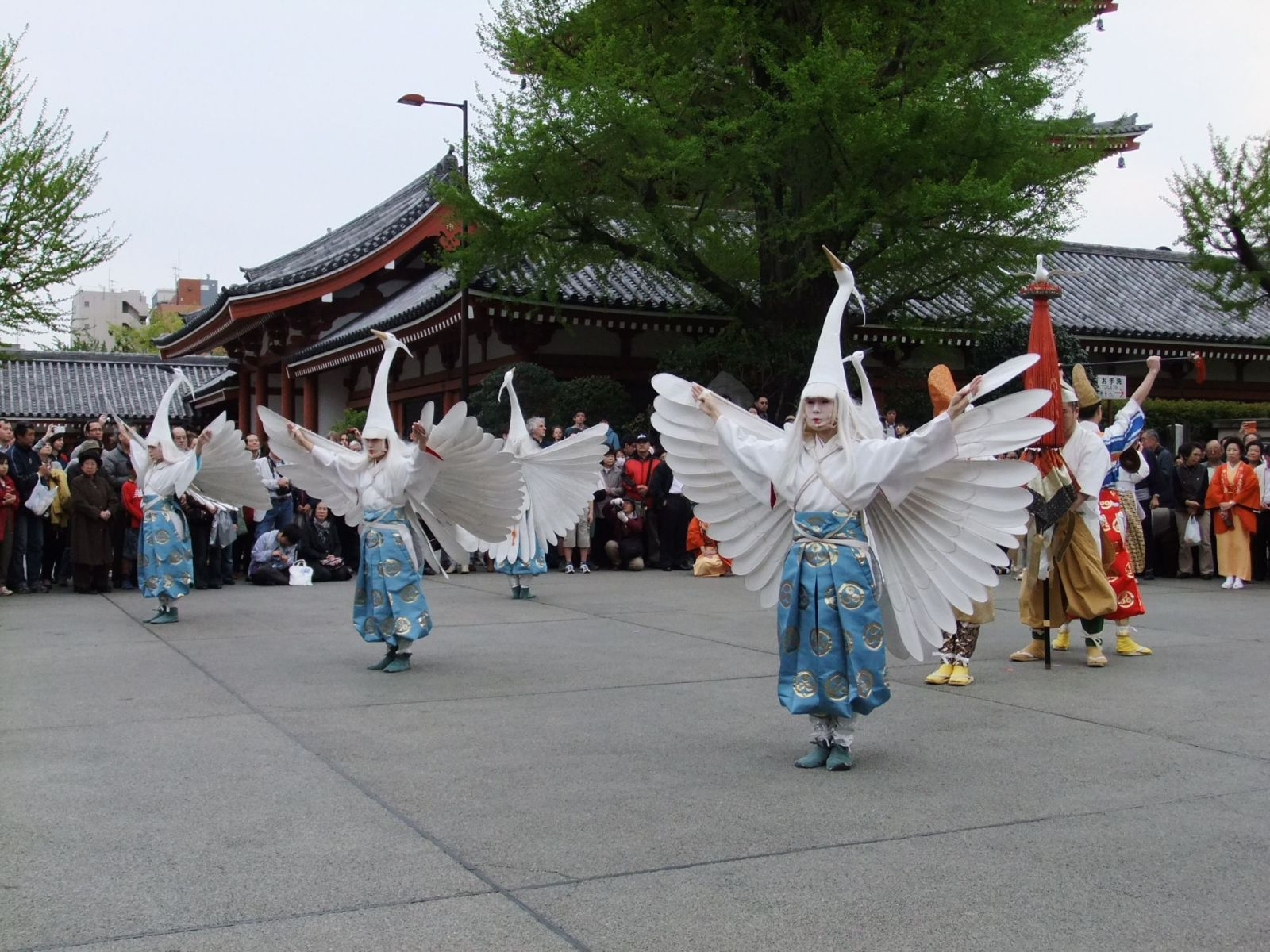 Shirasagi no mai (White heron dance) of Sensō-ji